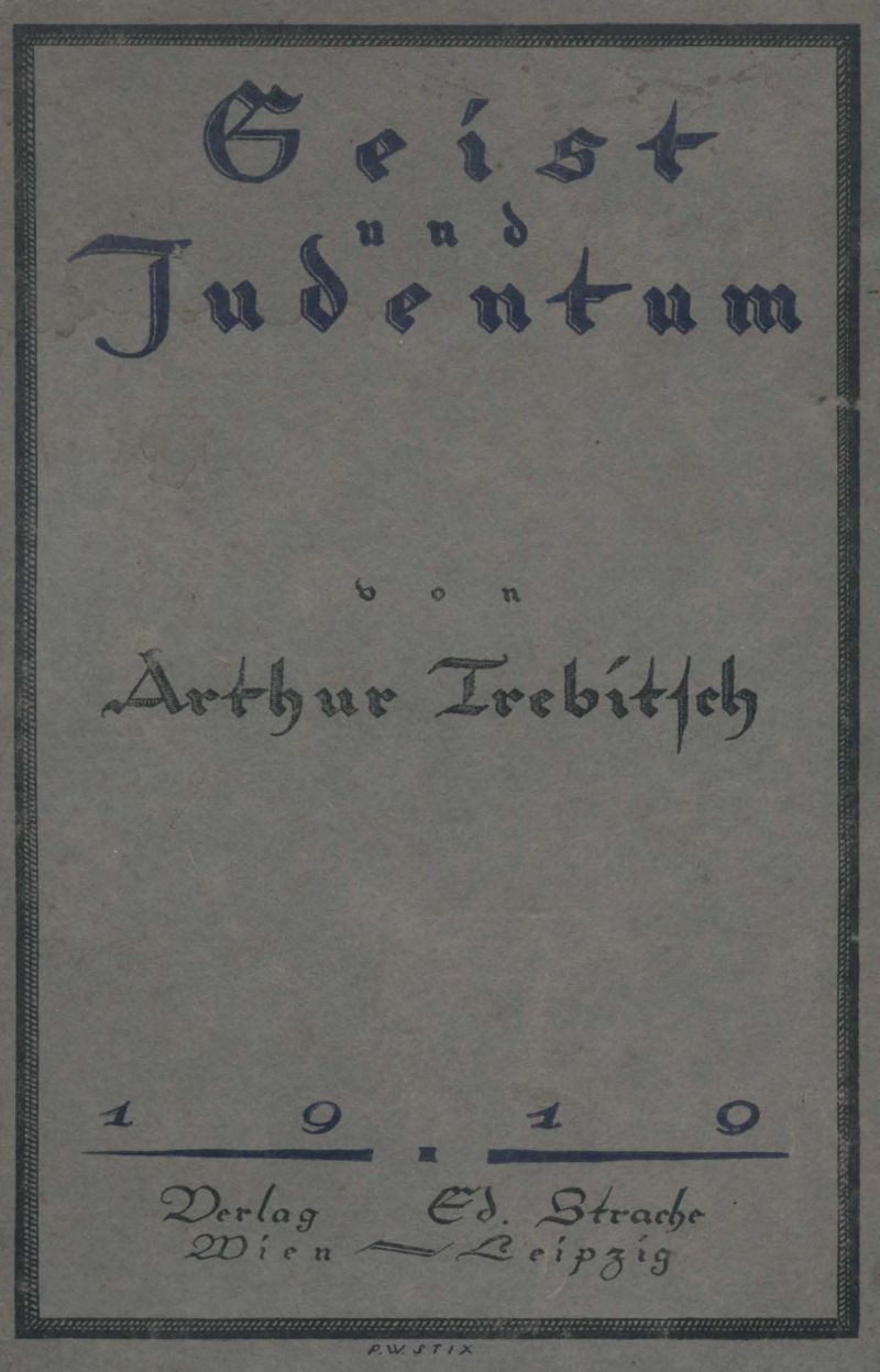 Cover of "Geist und Judentum".